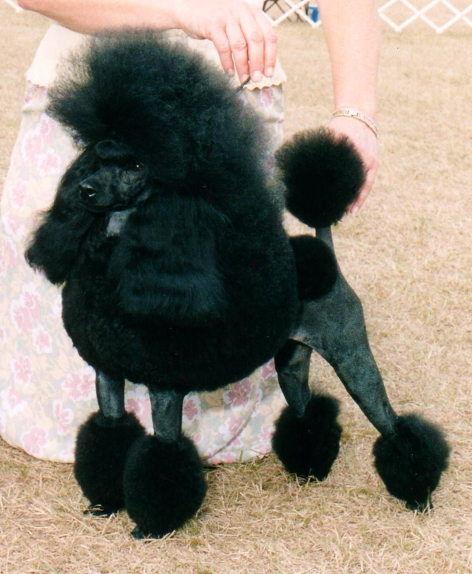 Ch. Renaissance Hopeful Impulse (Black bitch, born 12/25/2001. Call name "Hope"), finishing her championship, handled by Ann Rairigh of Kentucky.CH Renaissance Hopeful Impulse